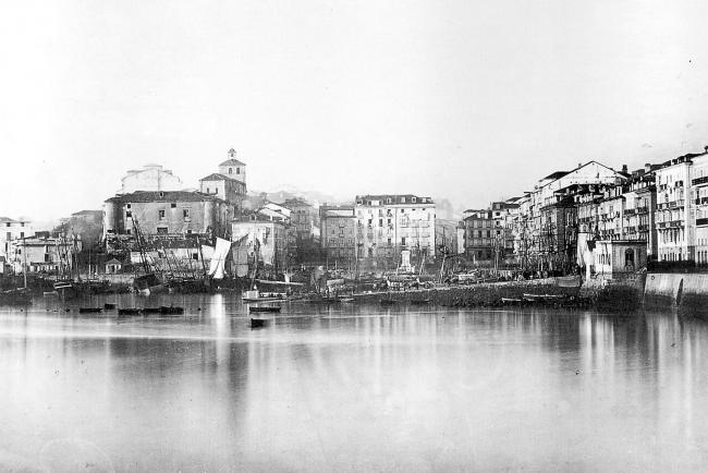 The port of Santander as seen from the end of the New Quay (1867)